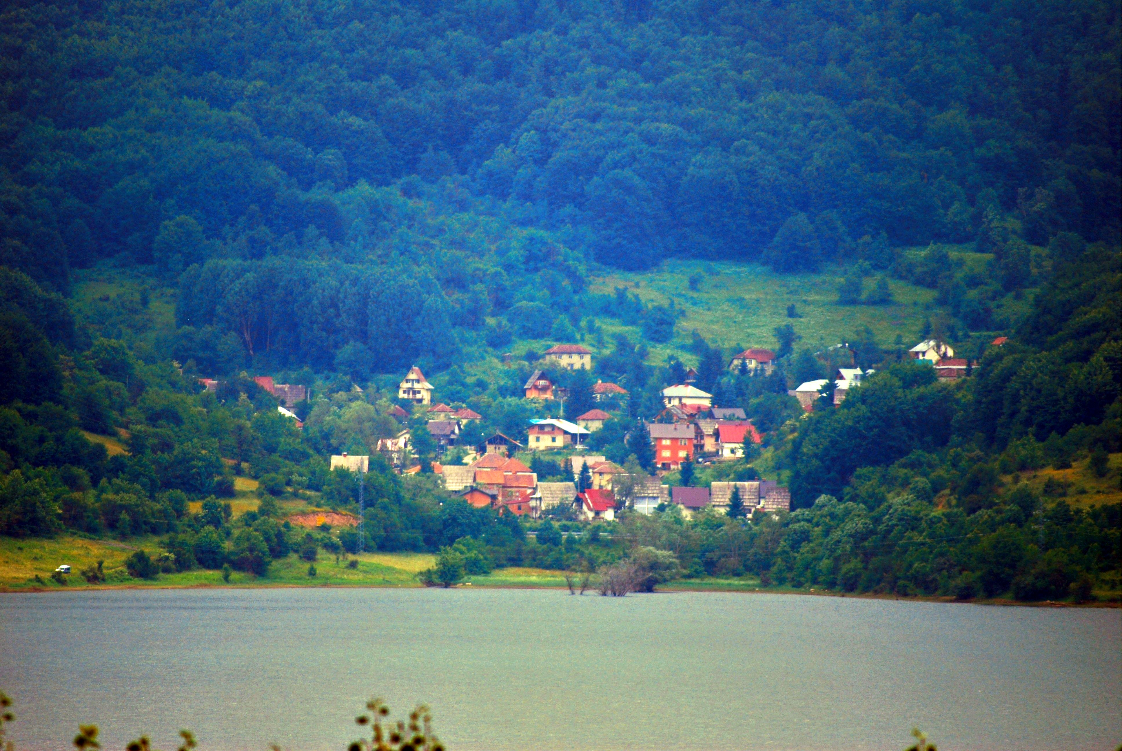 Nikiforovo, Macedonia